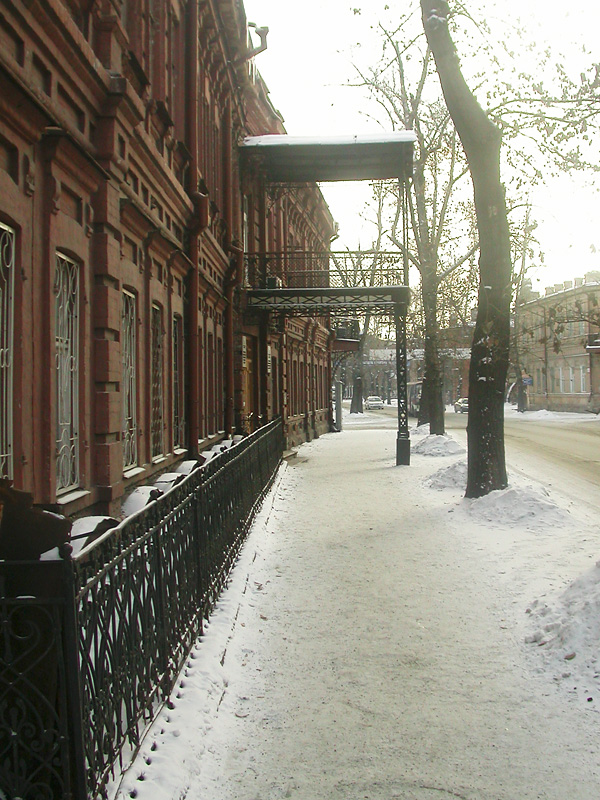 In the center of Irkutsk, Russia my own work